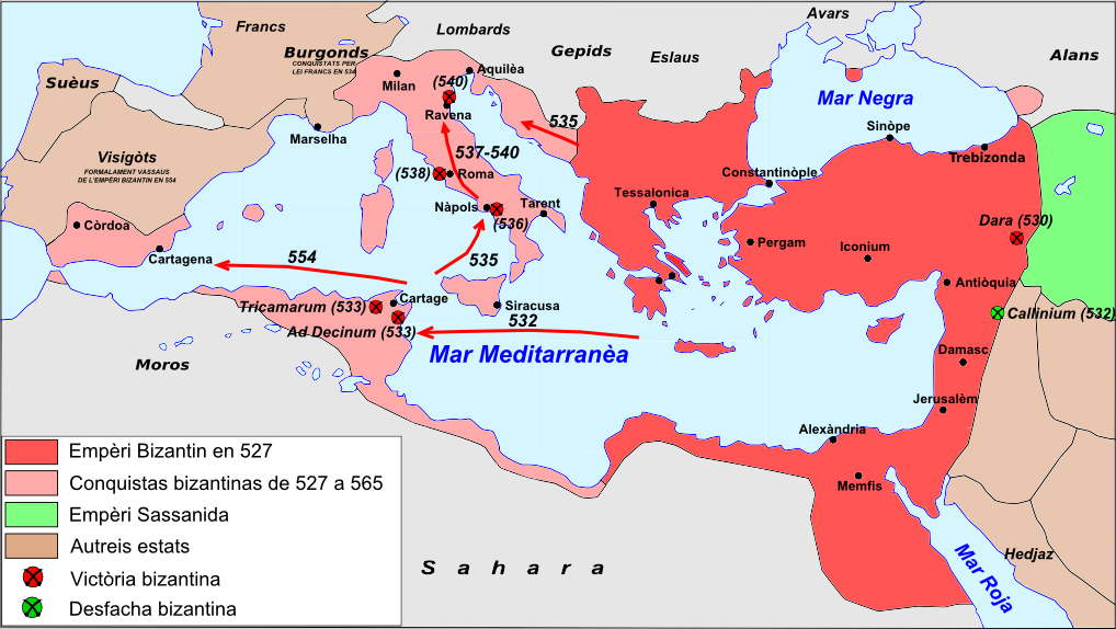 Byzantine Empire during the reign of Justinian